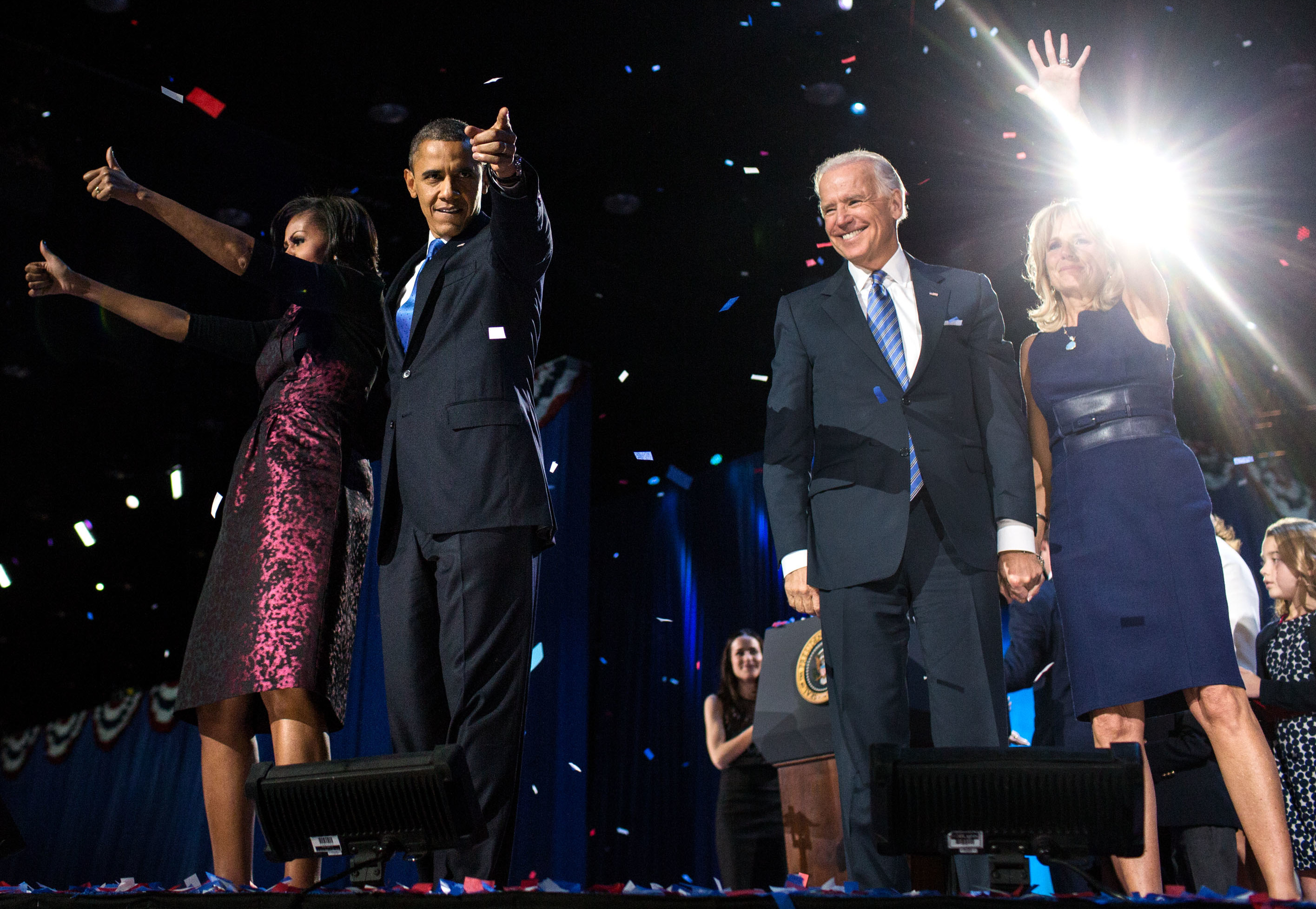 United States President Barack Obama, First Lady Michelle Obama, Vice President Joe Biden and his wife Jill Biden at McCormick Place in Chicago early on 7 November 2012 following the the President’s election night speech.